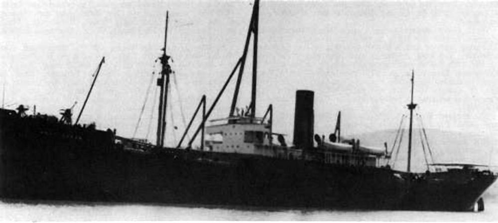 SS West Conob seen shortly after World War I